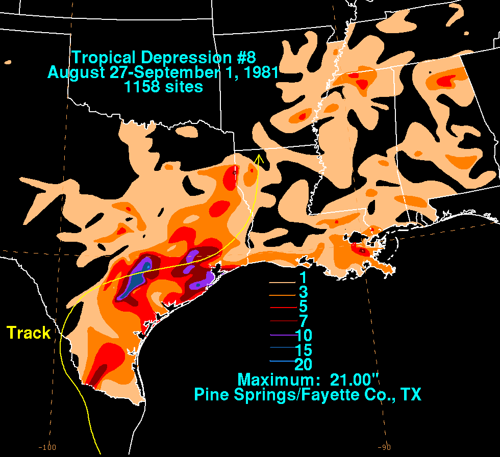 Storm total rainfall map of Tropical Depression Eight during August and September 1981.